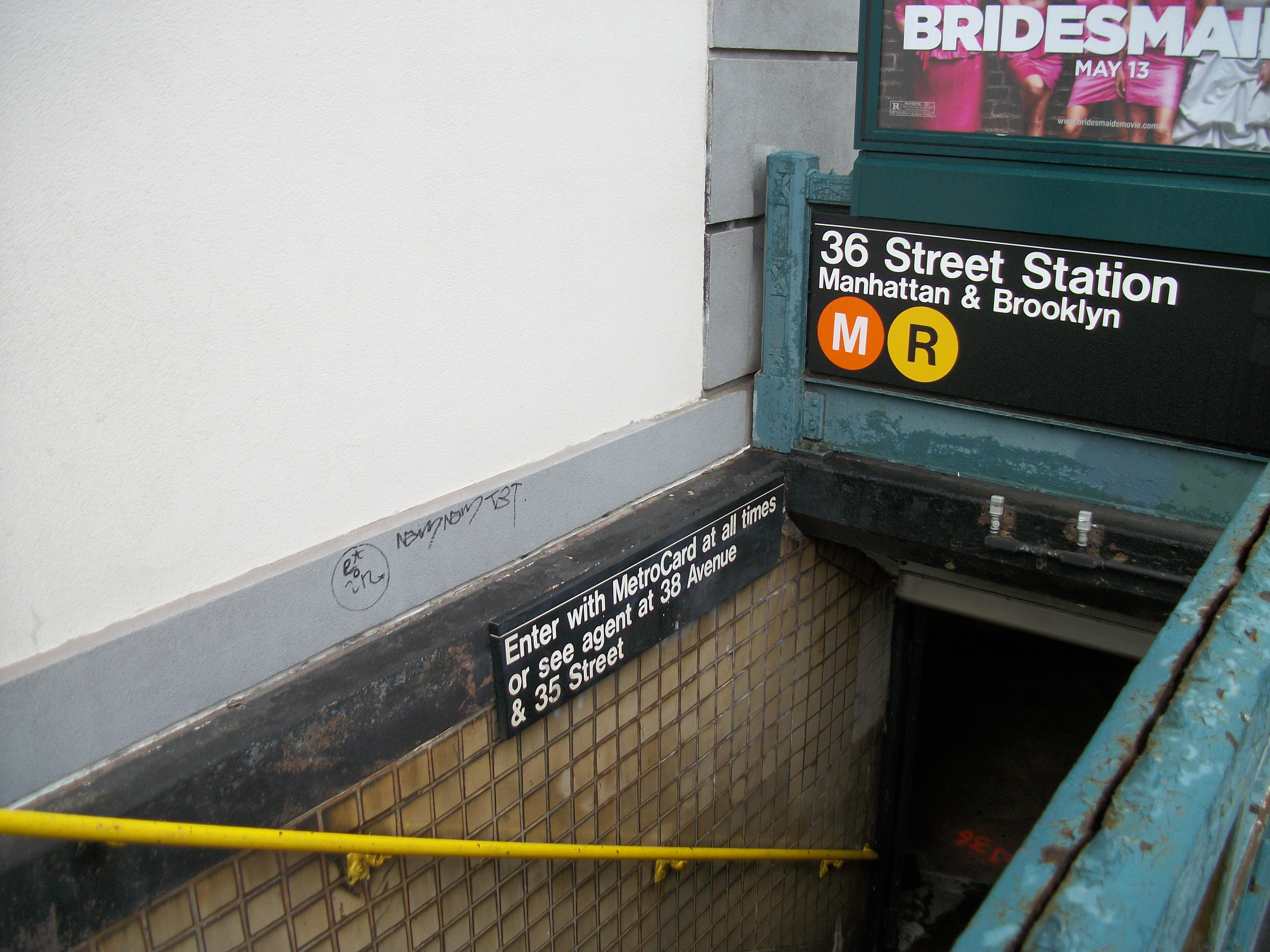 An entrance to the 36th Street (IND Queens Boulevard Line) station from the railing in Long Island City, Queens, New York.